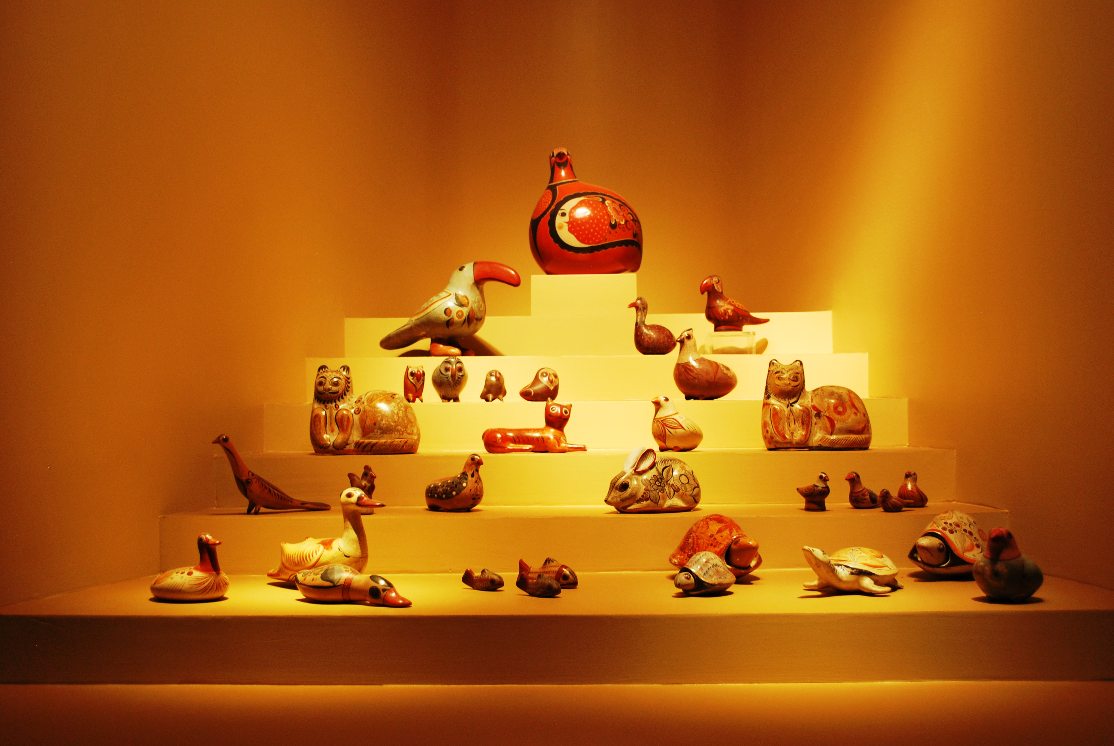 Display of carved wooden animals, mostly from Guanajuato and Jalisco on display at the Museum of Artes Populares in Mexico City